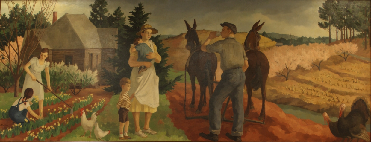 Andrée Ruellan, Spring In Georgia, oil on canvas, 51.75 x 133 inches